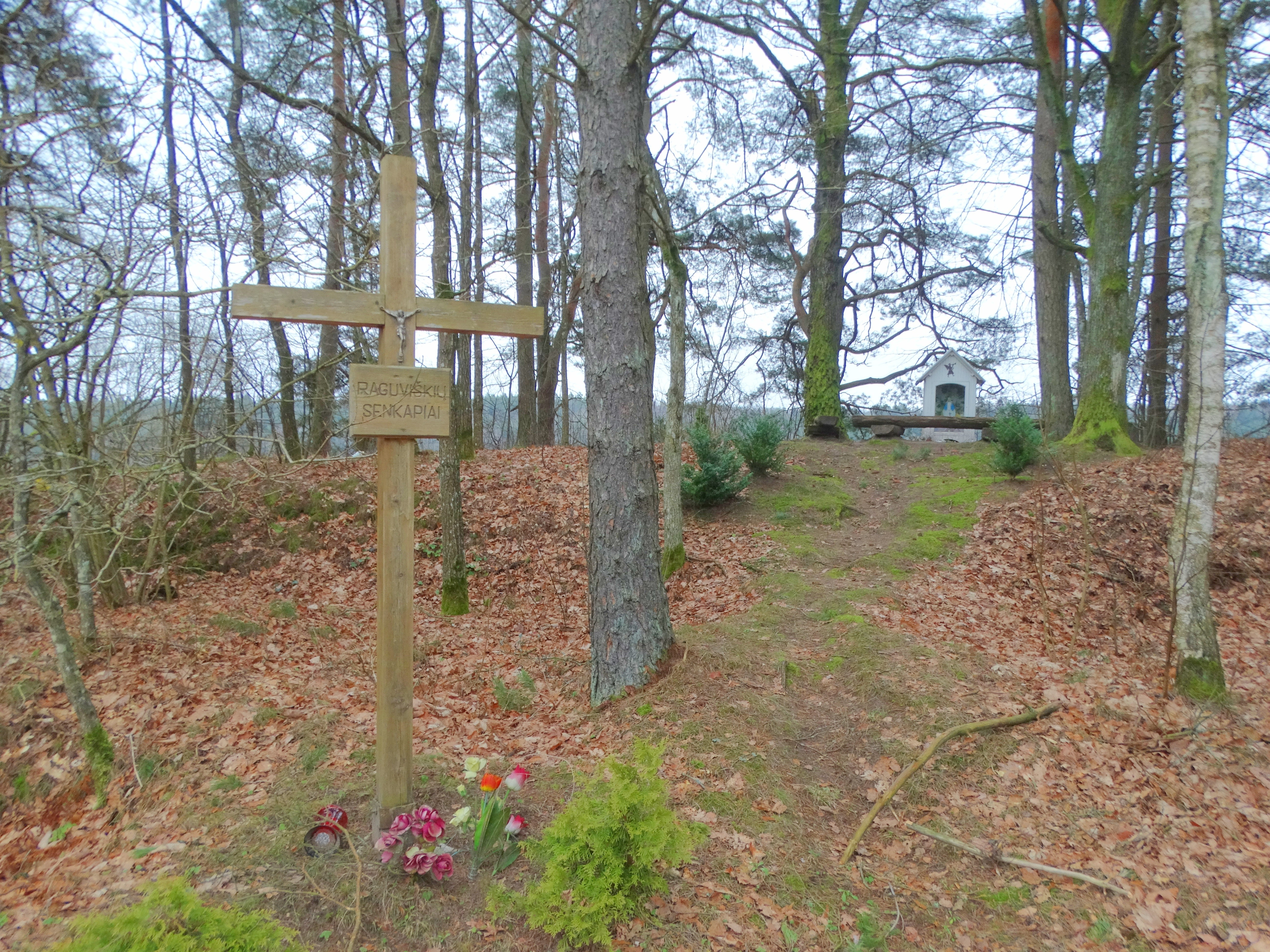 Old cemetery, Raguviškiai, Kretinga District, Lithuania